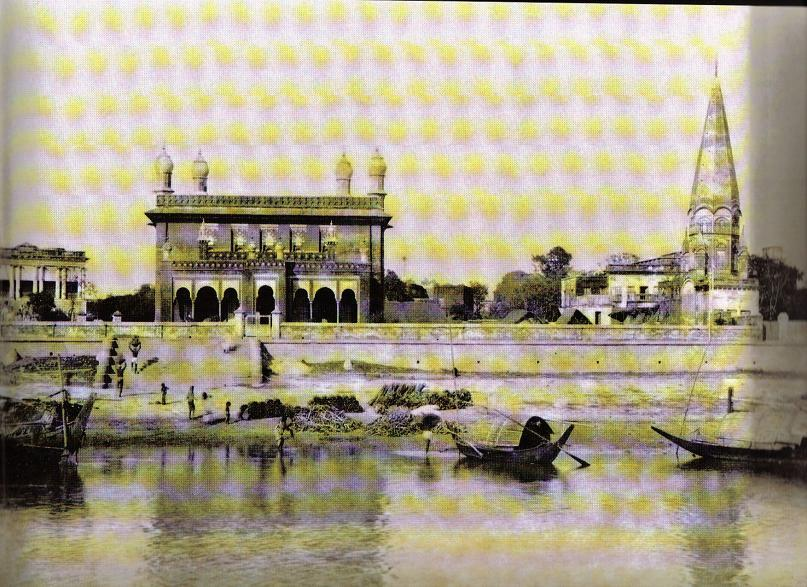 Northbrook Hall, view from Burigonga River.